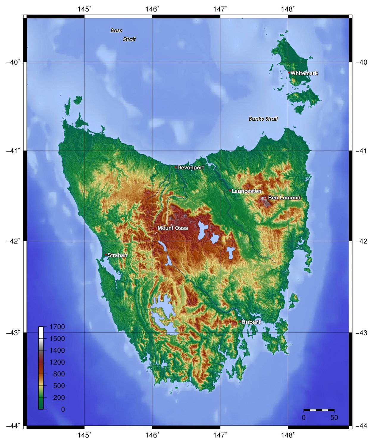 Description: Topography of Tasmania, created with GMT 4.5.6